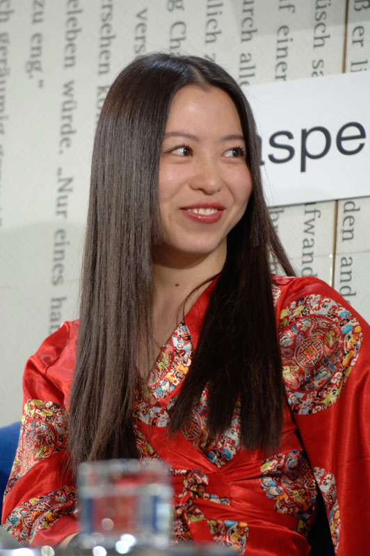 Chinese writer Zhou Weihui